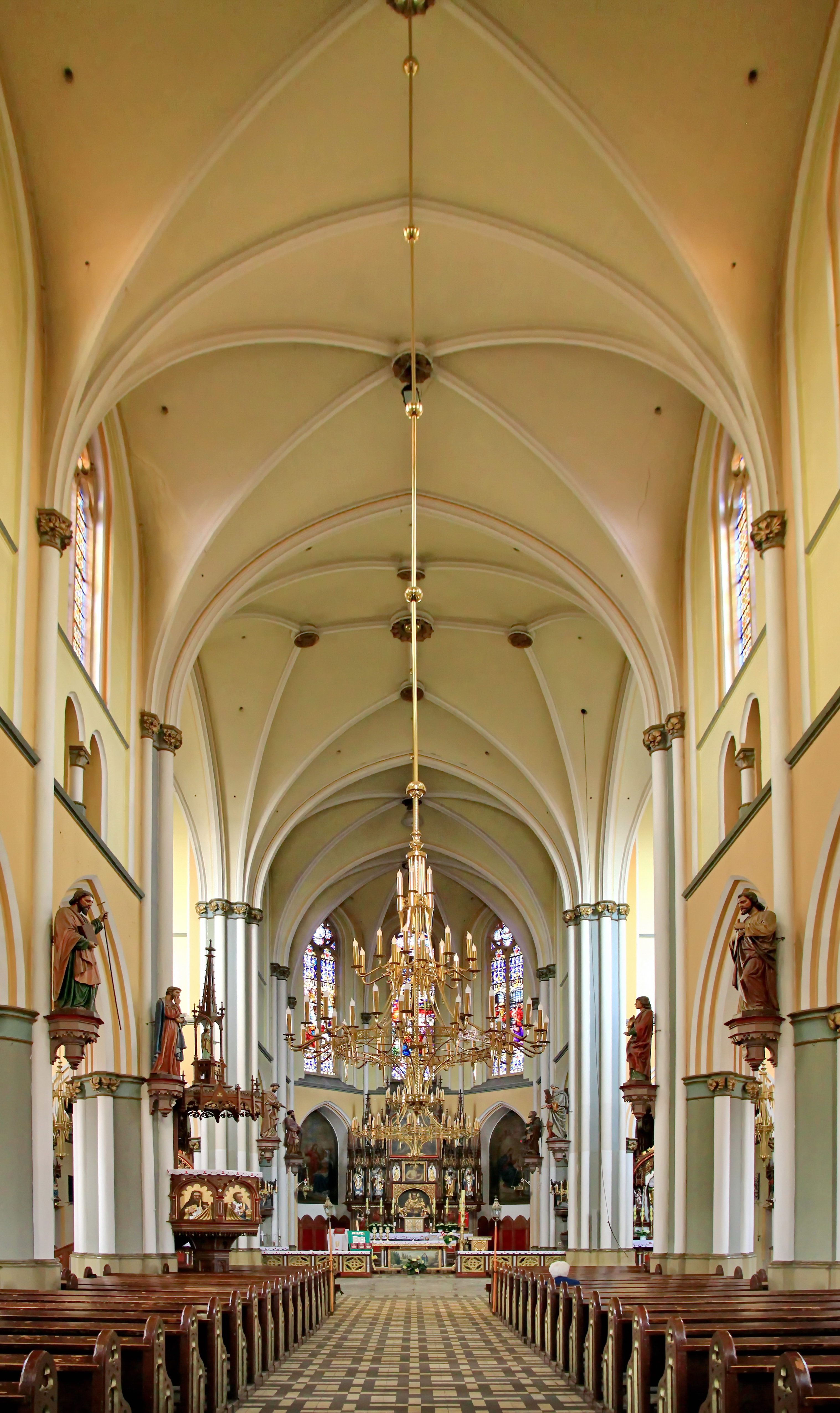 Racibórz, Church of John the Baptist, build in 1836